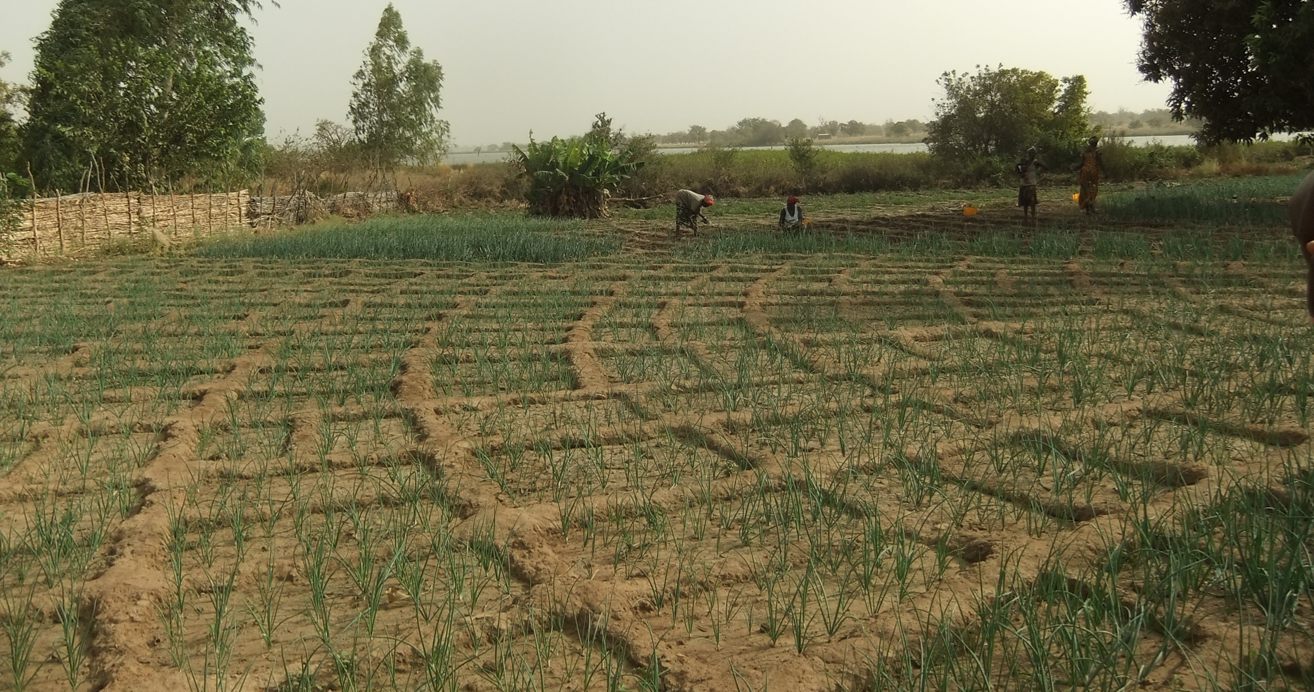 Bale de Virou This is an image of "African people at work" from Burkina Faso